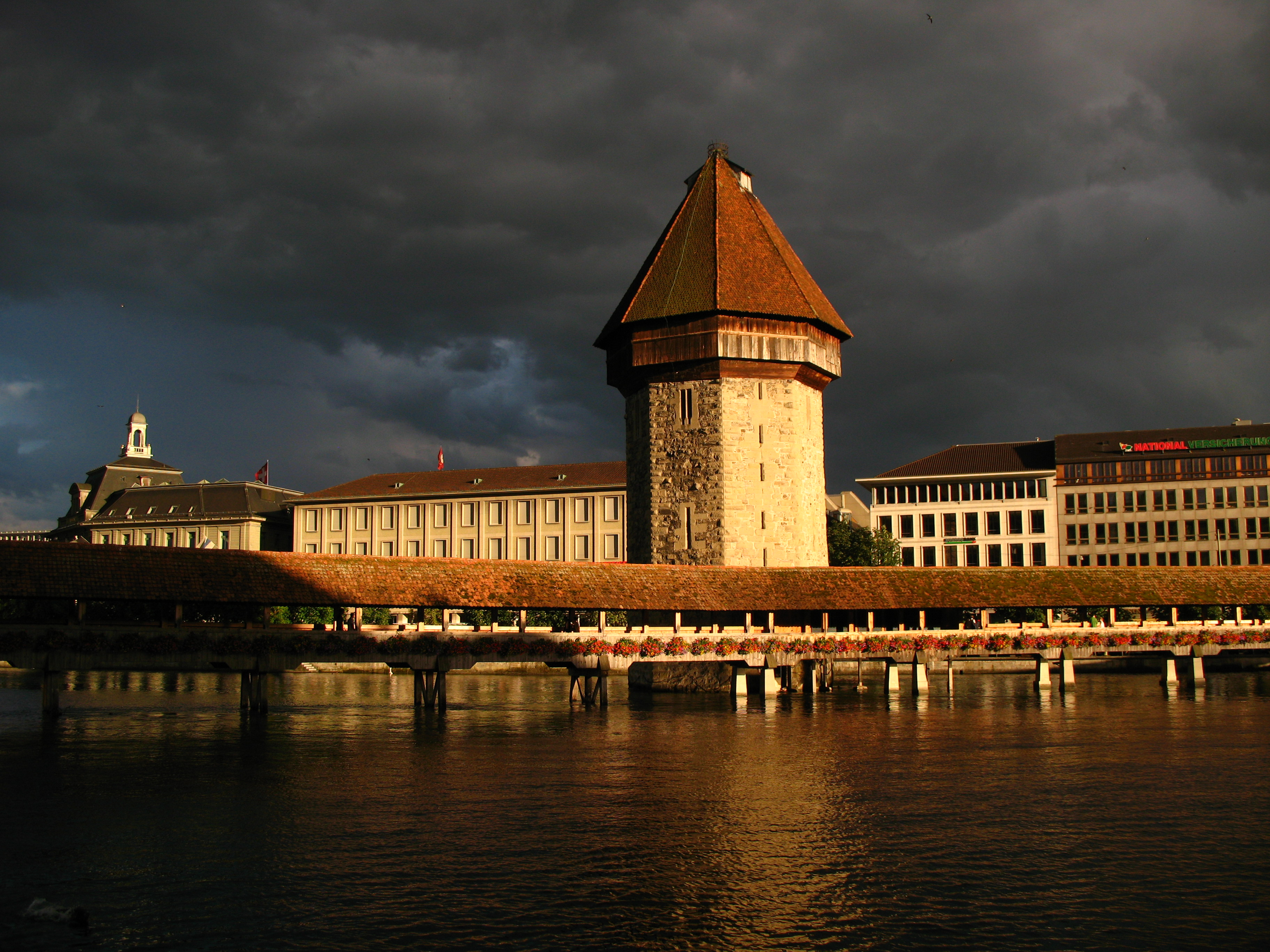 Chapel Bridge, Luzern, Switzerland